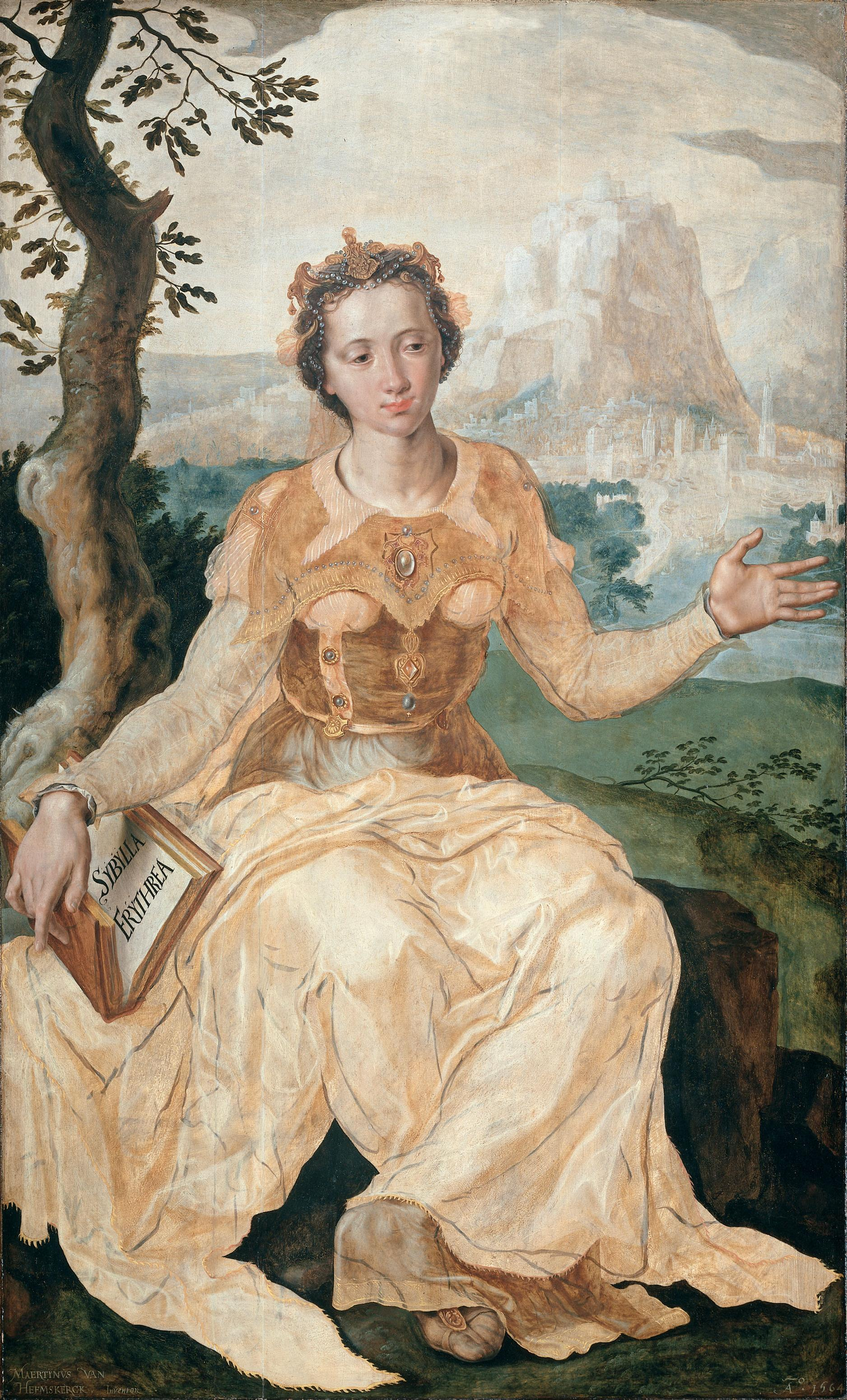 Fragment of a triptych.